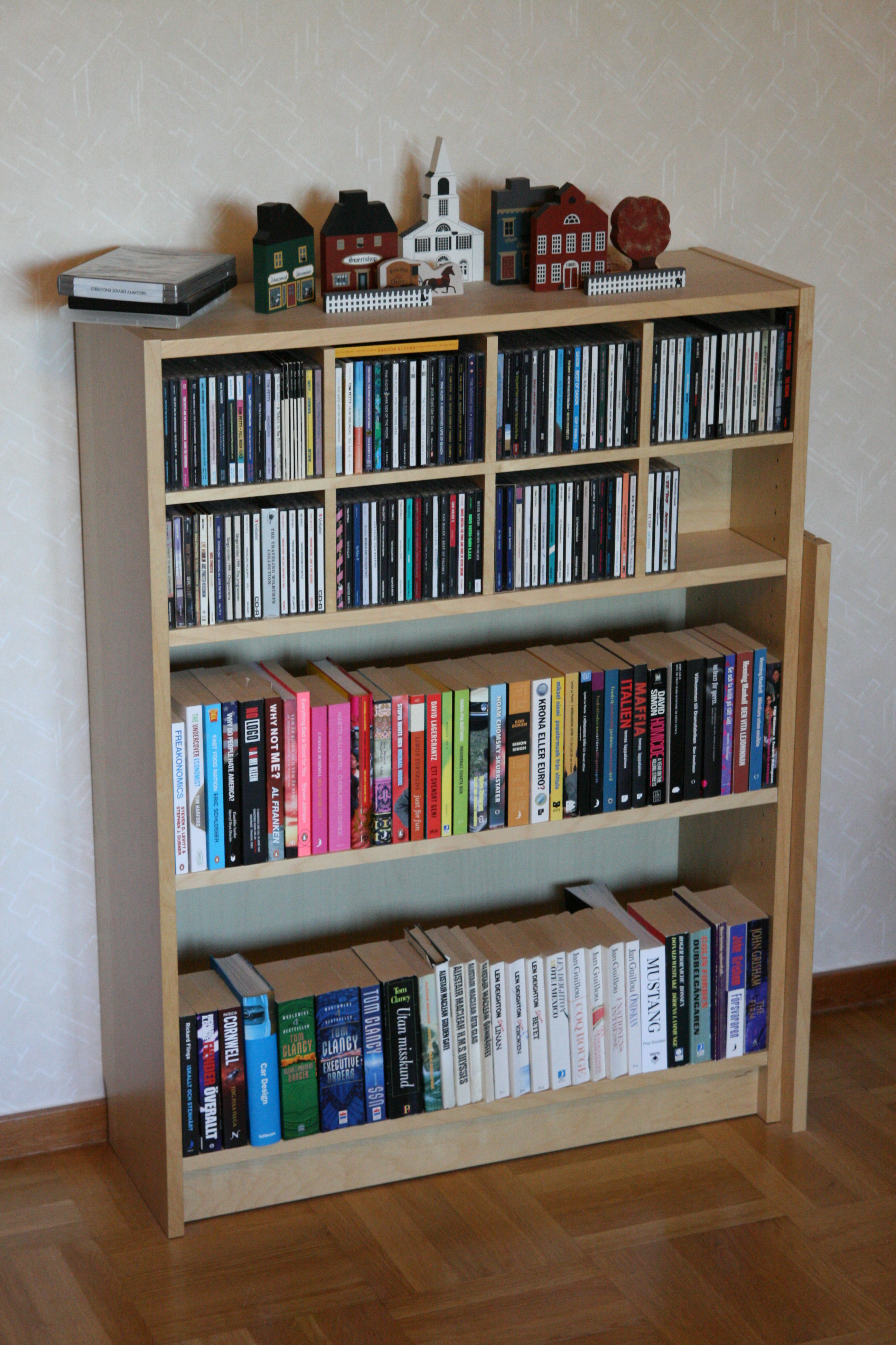 An IKEA Billy bookshelf, 80x106 cm, finished in birch veneer and with the optional CD rack at the top. A extra shelf is leaning against the right-hand side of the bookshelf.